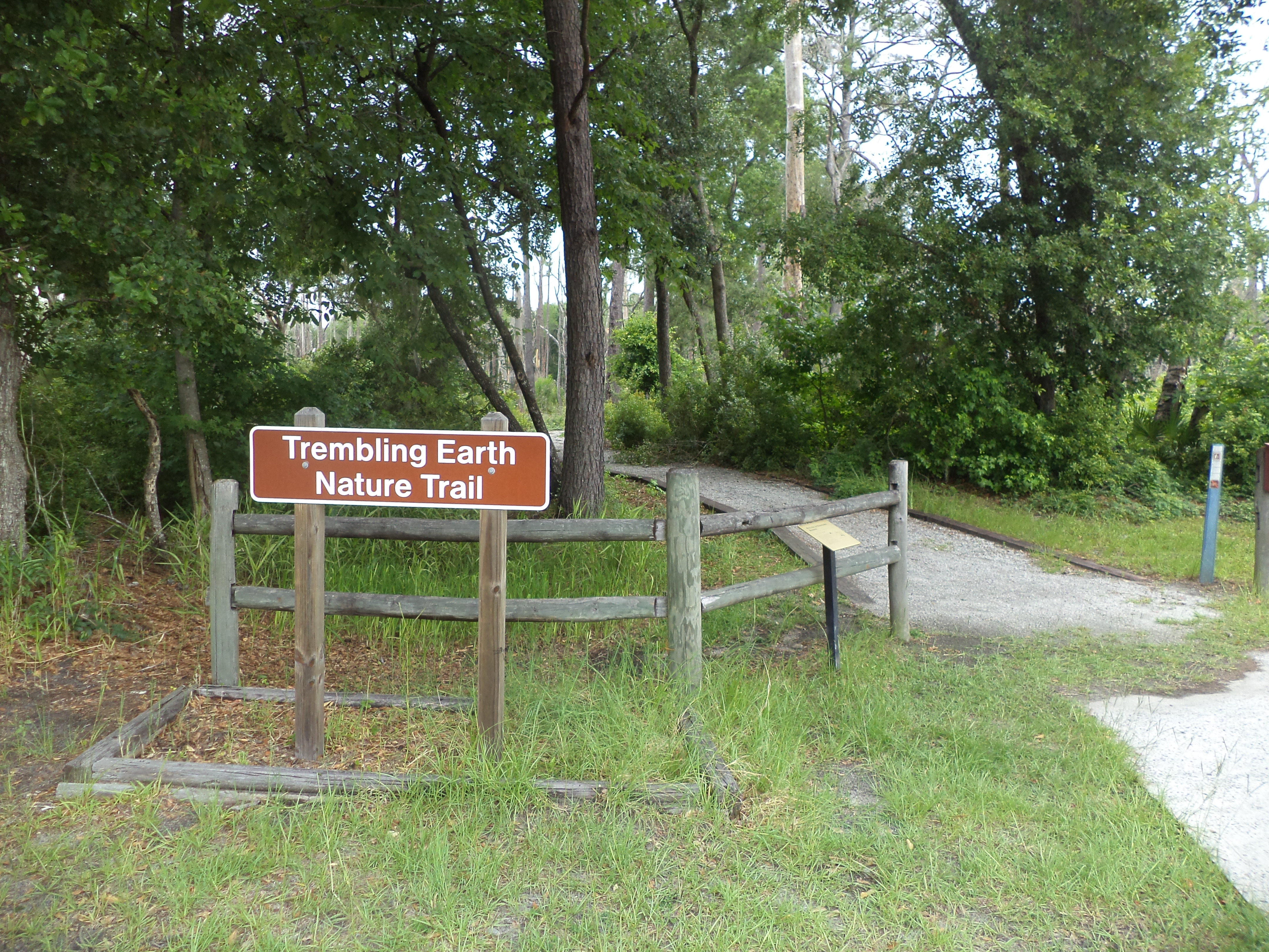 Trembling Earth Nature Trail trailhead, Stephen C. Foster State Park, Charlton County, Georgia